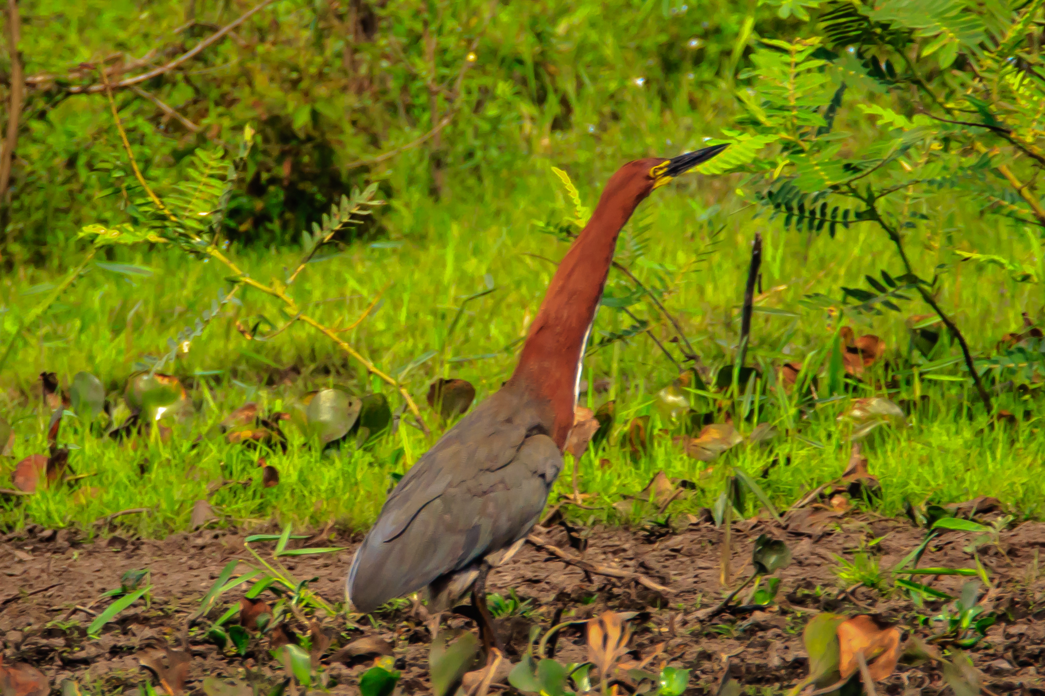 at Possa da Londra in the Brazilian Patanal (105m)...Rufescent Tiger-Heron (Tigrisoma lineatum)...